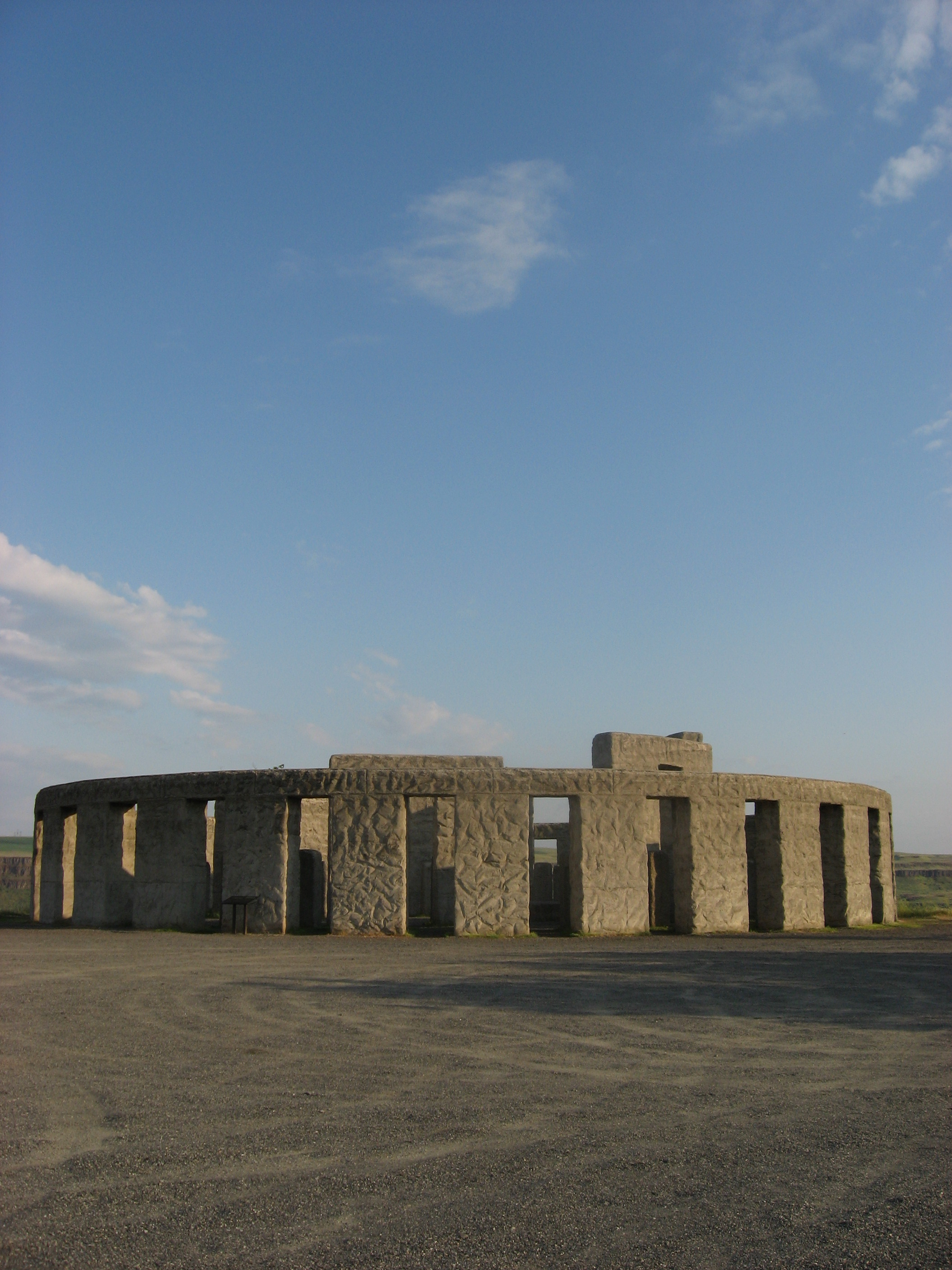 The Maryhill Stonehenge WWI Memorial, in Maryhill Washington and near the Maryhill Museum of Art. Built by Samuel Hill.